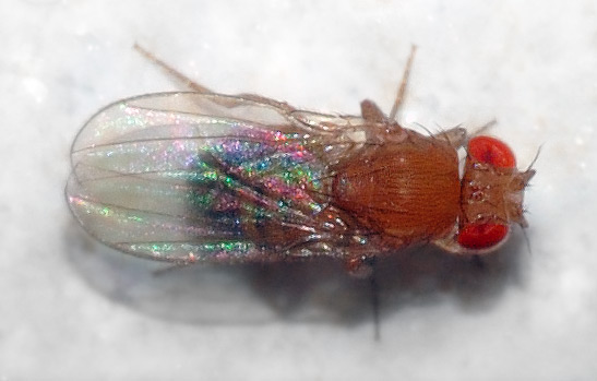 This image shows a 0.1 x 0.03 inch (2.5 x 0.8 mm) small Drosophila melanogaster fly.